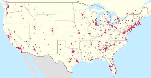 Image from